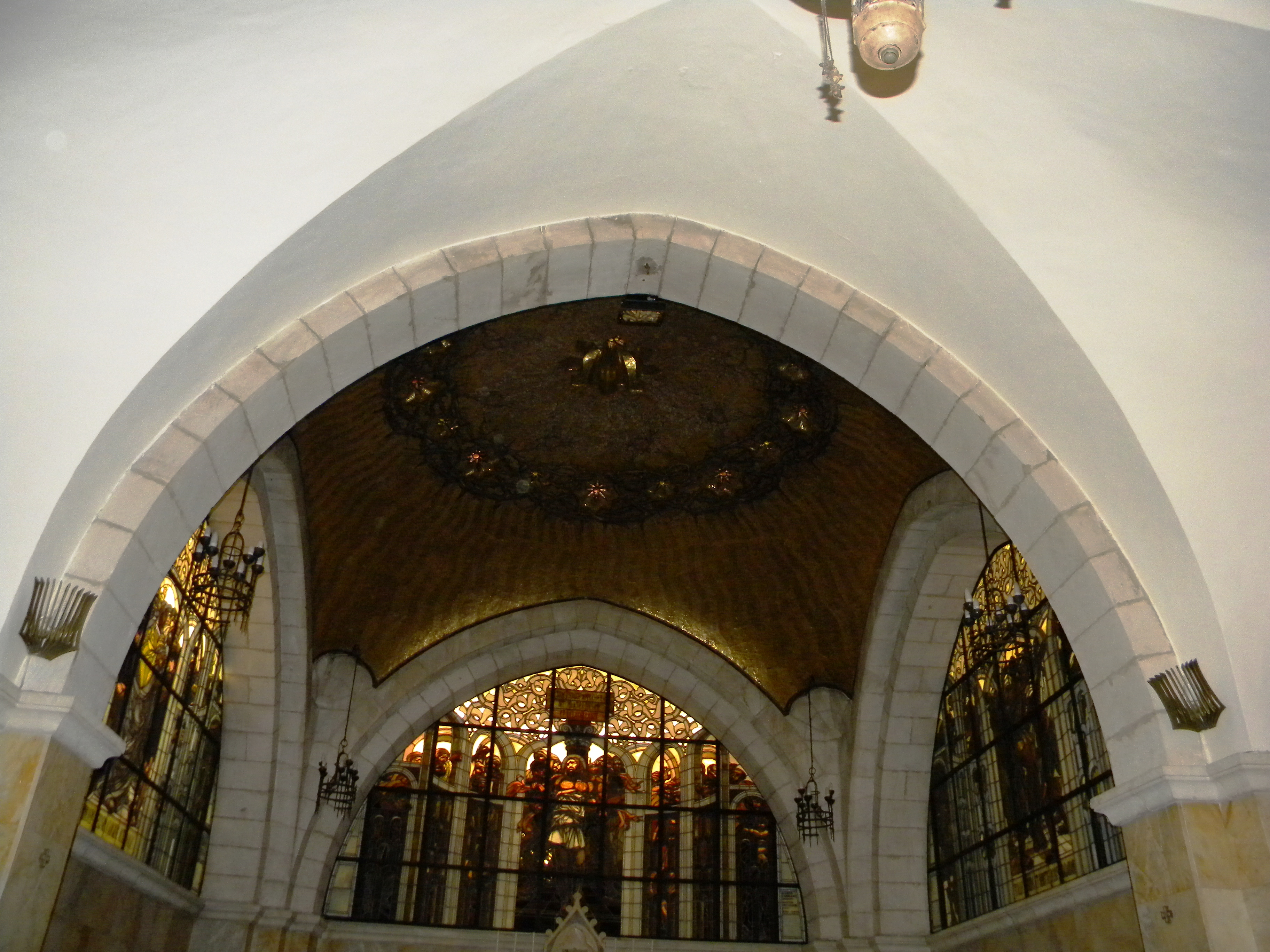 East Jerusalem, Flagellation Church (Ierusalim, Capela Biciuirii); 1-3000-304